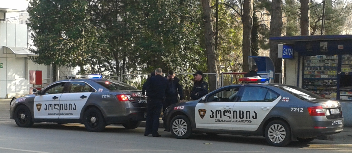 Tbilisi, Georgia — Georgian Police's new patrol car Ford Taurus Police Interceptor and elder Škoda Octavia.